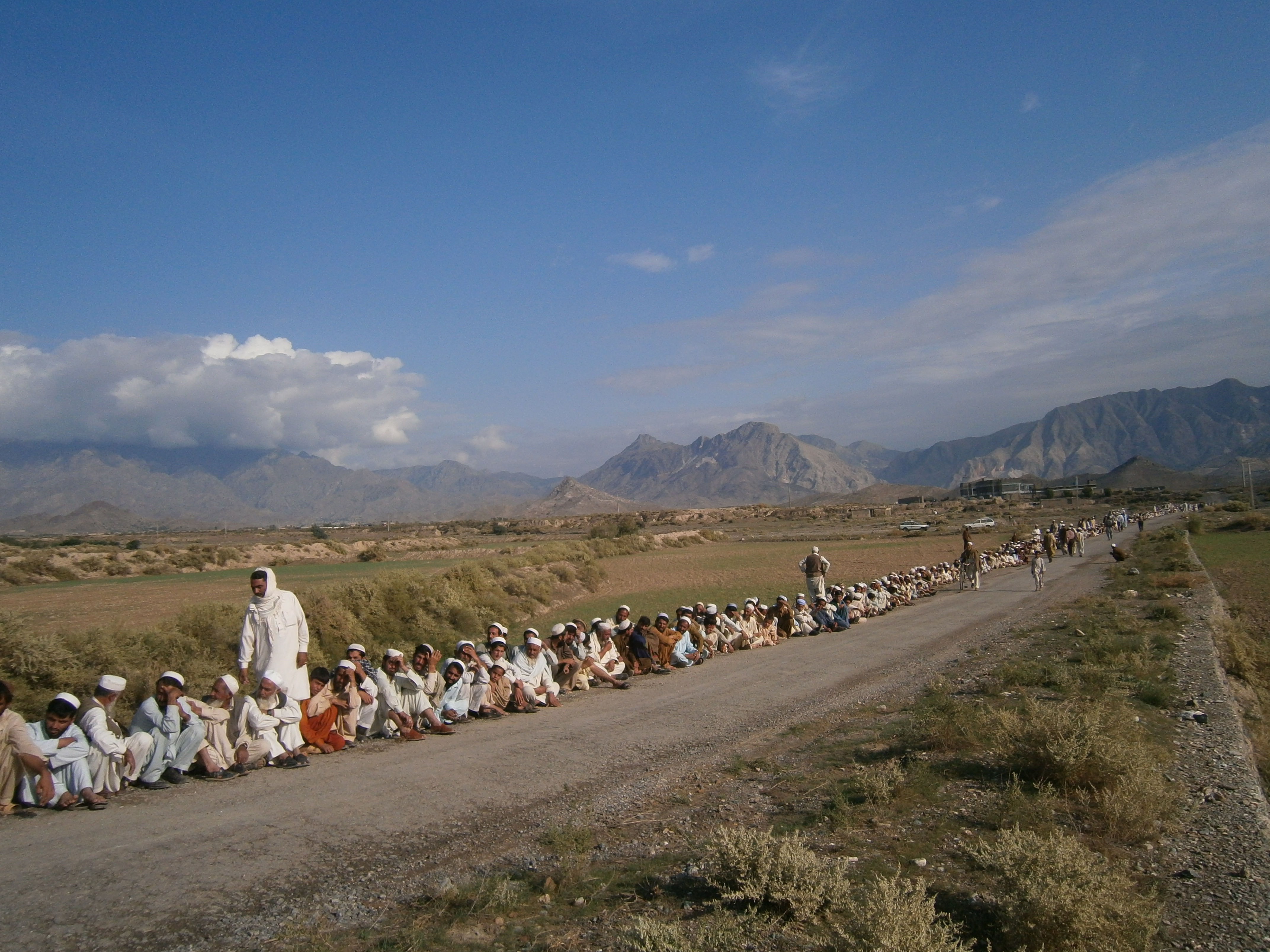 Near Pak/Afghan Border, Tehsil Baizai, Mohmand Agency